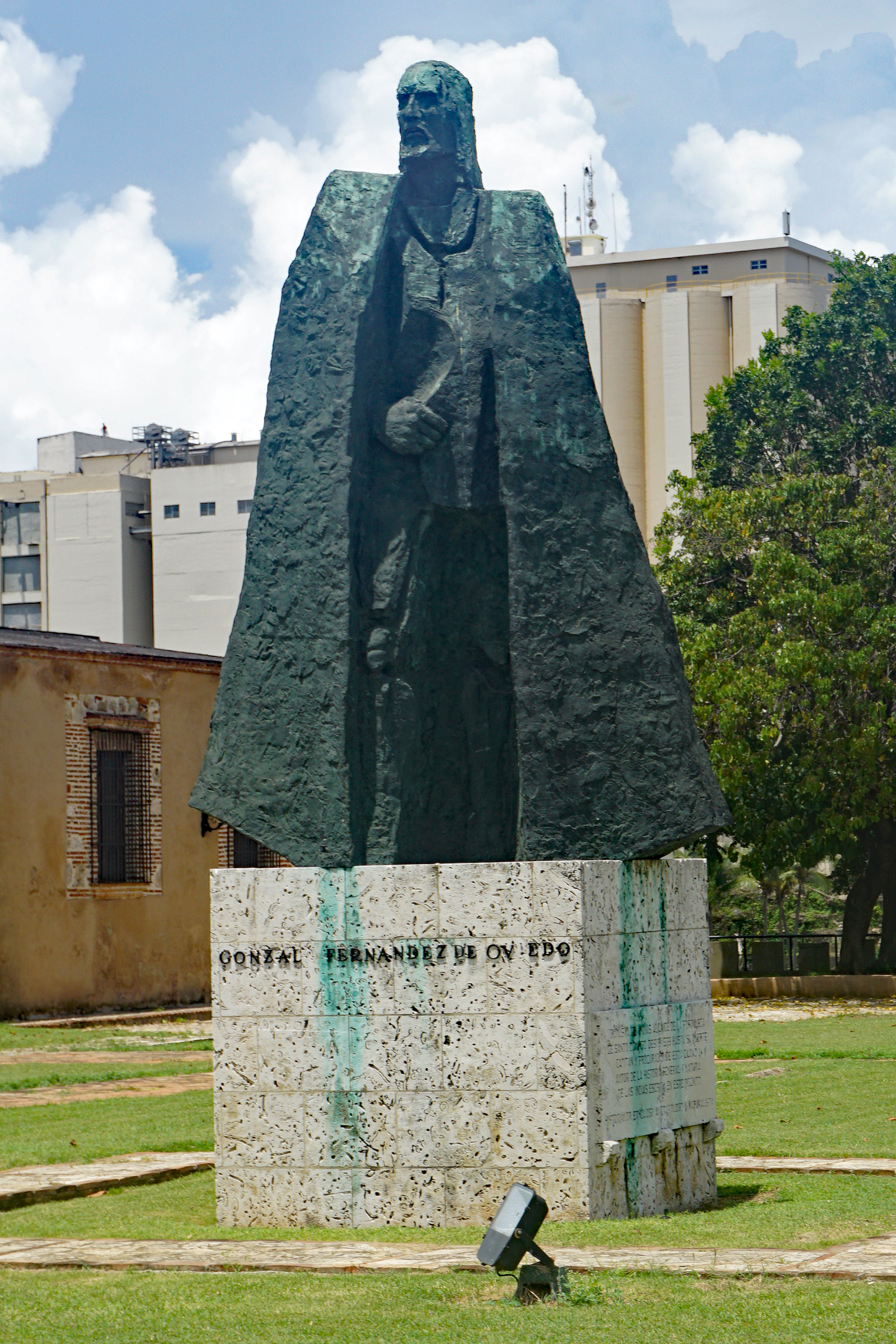 Statue of Gonzalo Fernández de Oviedo at Ozama Fortress. Cuidad Colonial de Santo Domingo, Domican Republic.